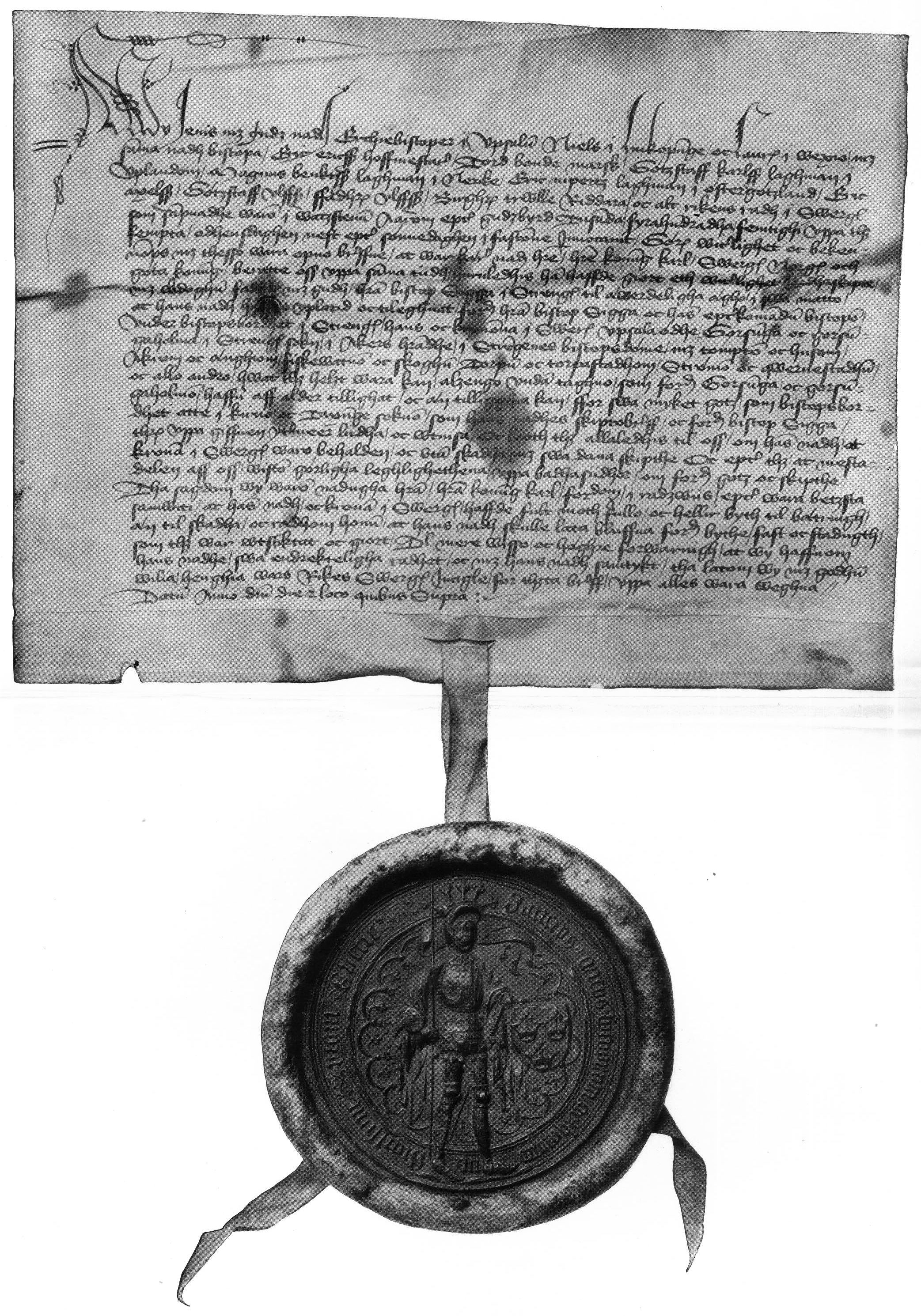 Vellum from Sweden (1455) with the Swedish seal